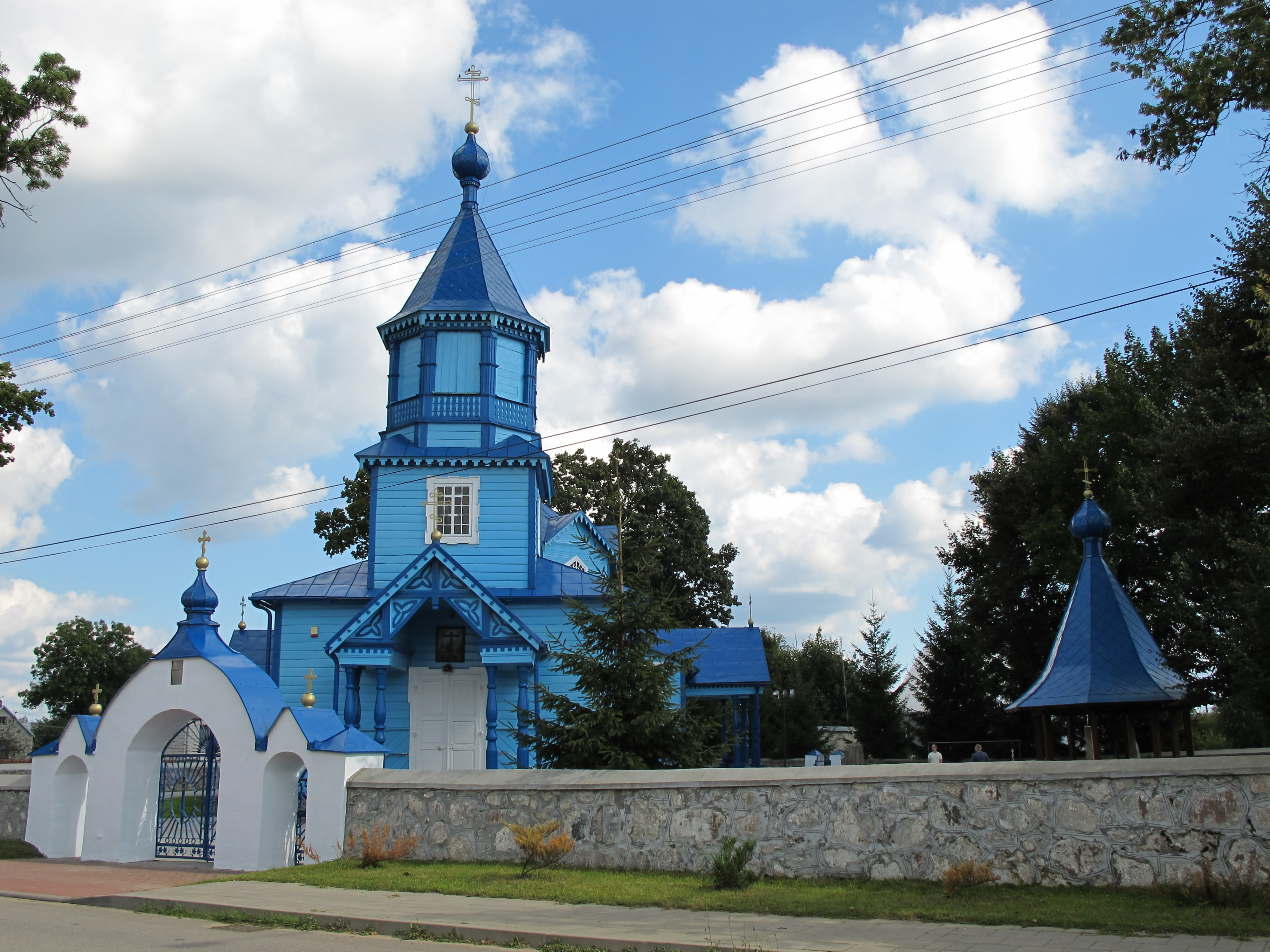 Orthodox church of the Exaltation of the Holy Cross, Poniatowskiego 27 st., Narew, gmina Narew, podlaskie, Poland